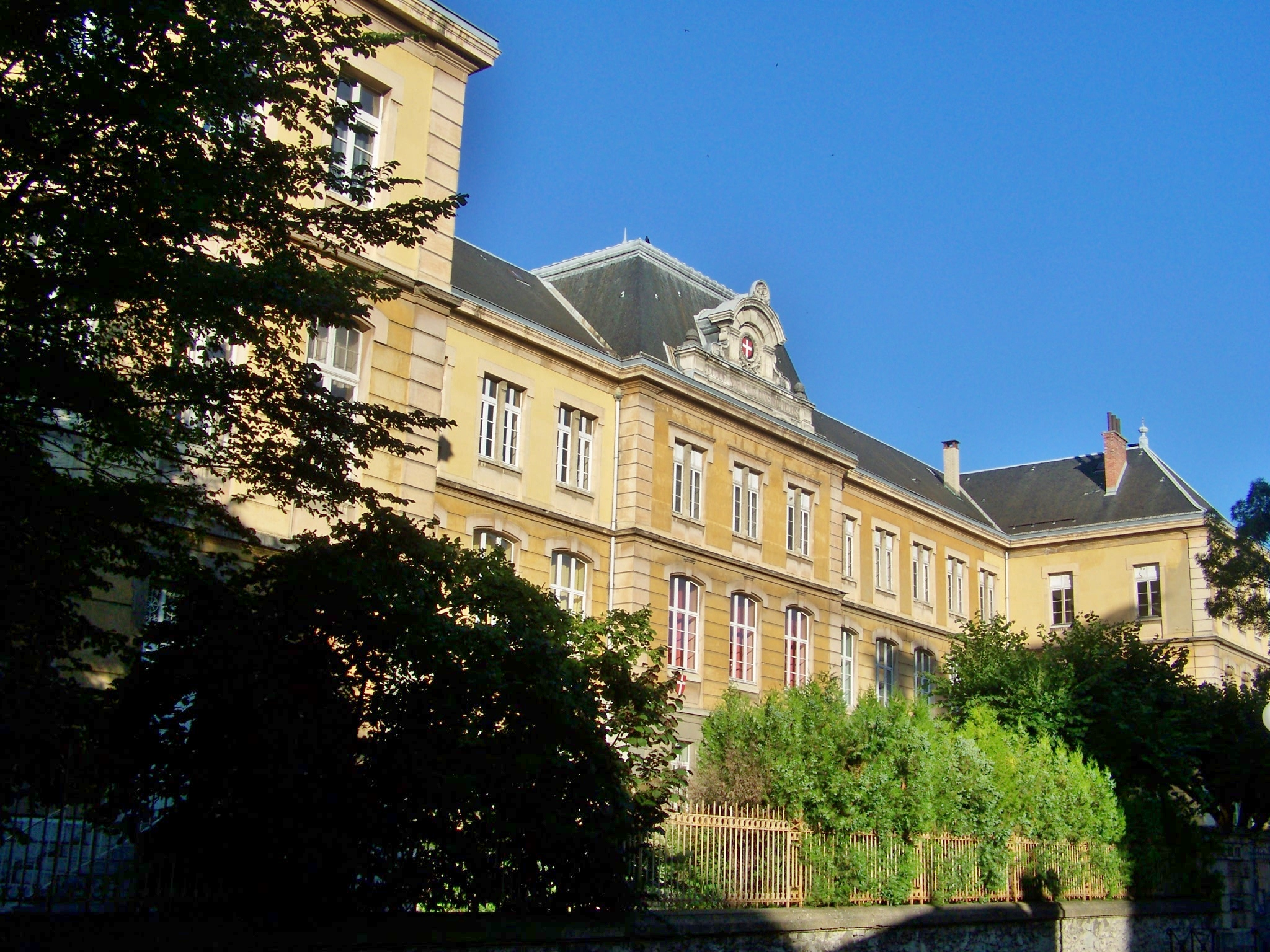 Building of Chambéry IUFM ('University Institute for Teachers Training'), in Savoie, France.